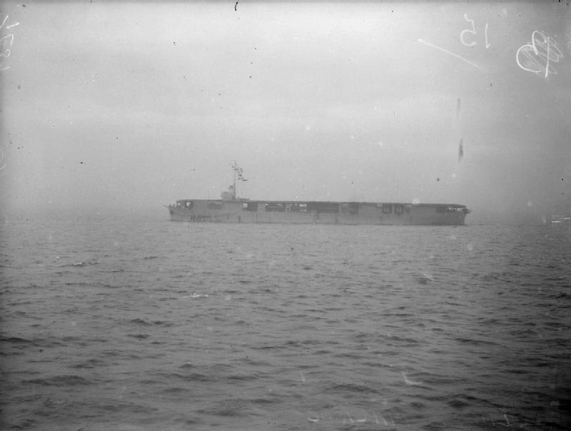 A view of the British Merchant Aircraft Carrier (MAC) ship MV Empire MacRae.